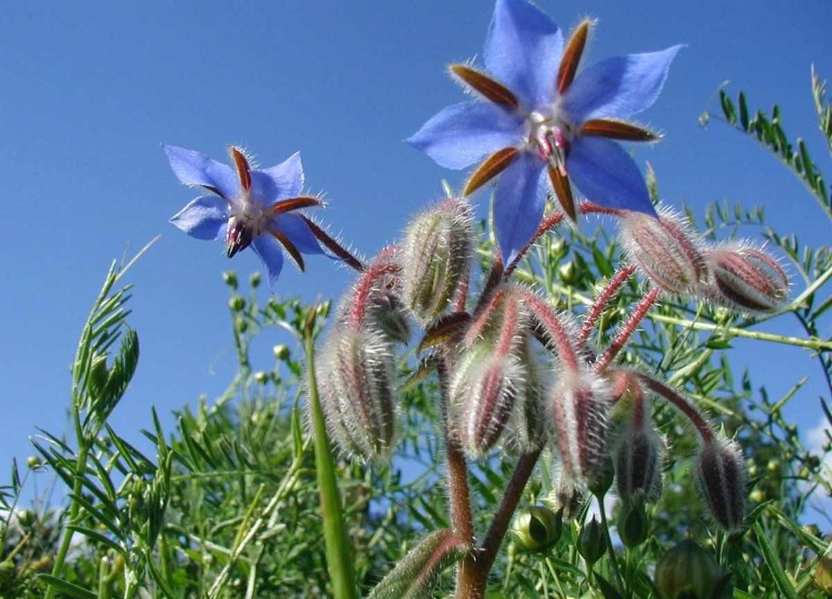 Borago officinalis: Flowers and leaves.